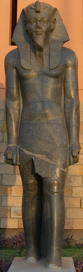 Cropped and rotated version (2.5 degree clock-wise) of original image found on Wikimedia Commons at